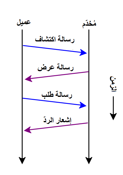 Messages exchanged between a DHCP server and a DHCP client.